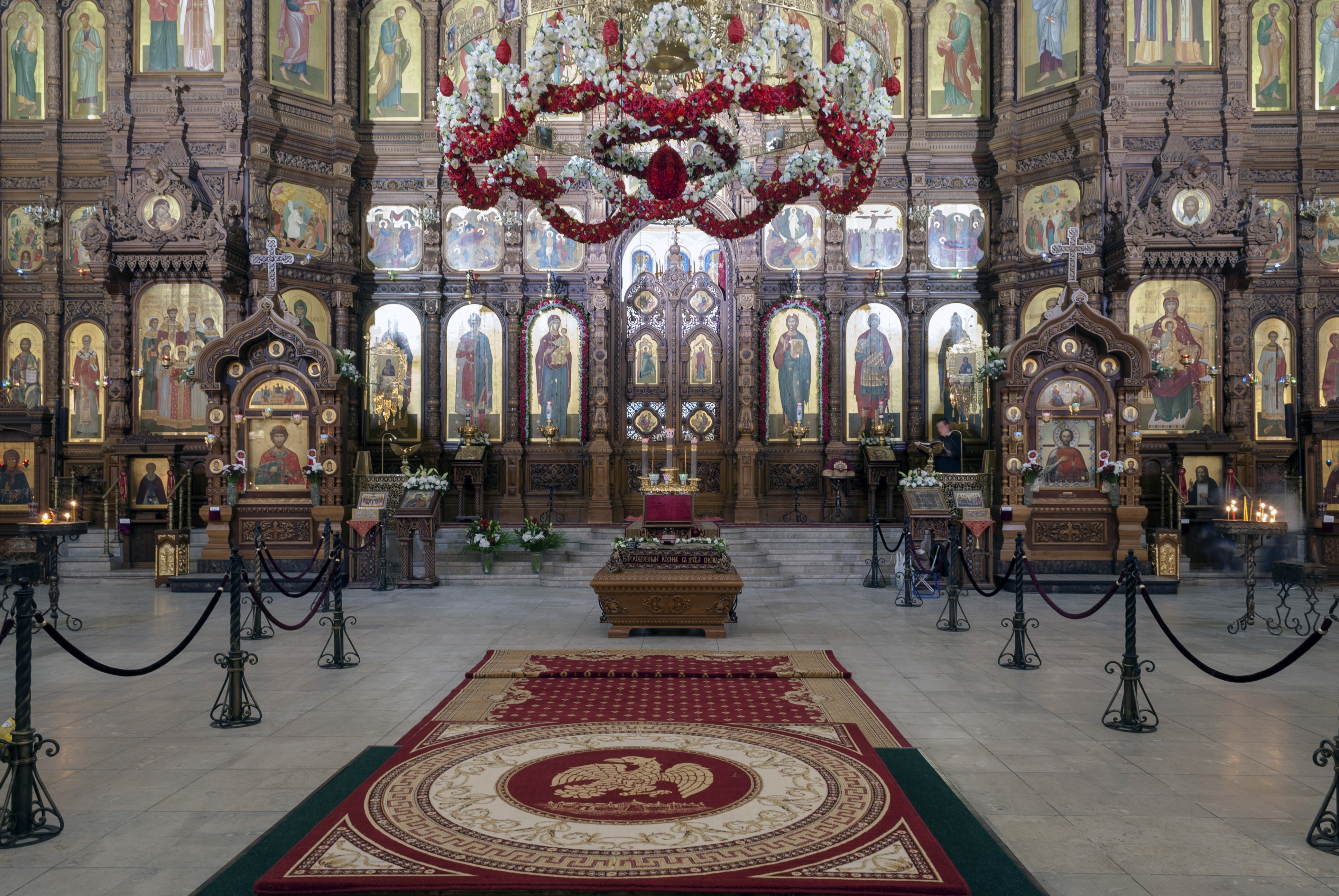 Main iconostasis of Saint Alexander Nevsky Cathedral in Nizhny Novgorod on Easter